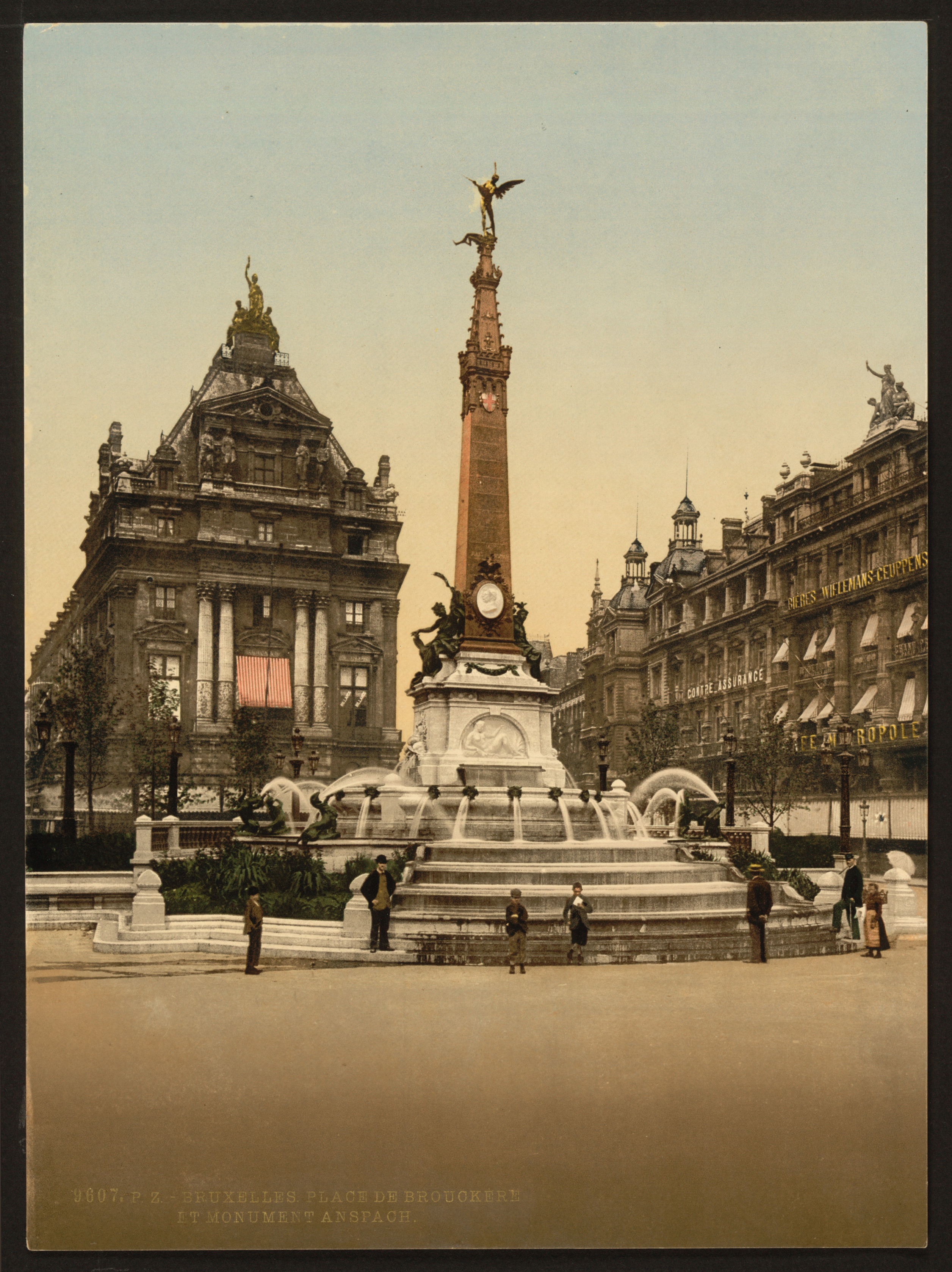 The Place de Brouckère (de Brouckèreplein), Brussels, Belgium (ca. 1890-1900)